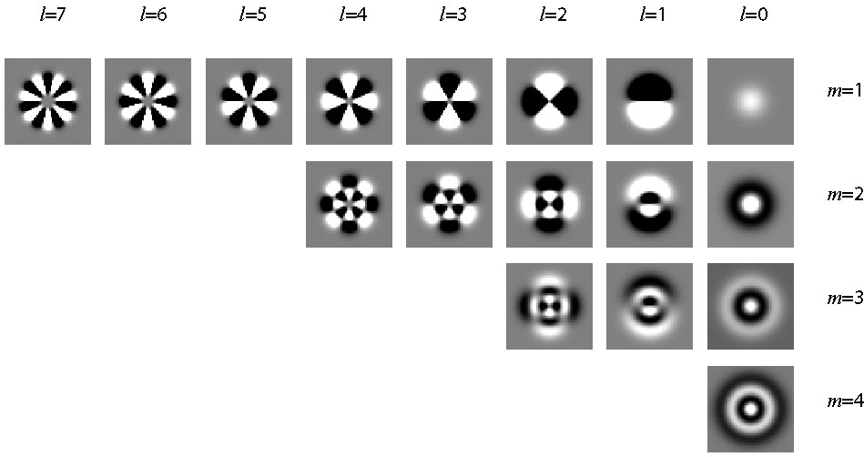 optical power distribution of low-order modes in an optical fibre, fiber